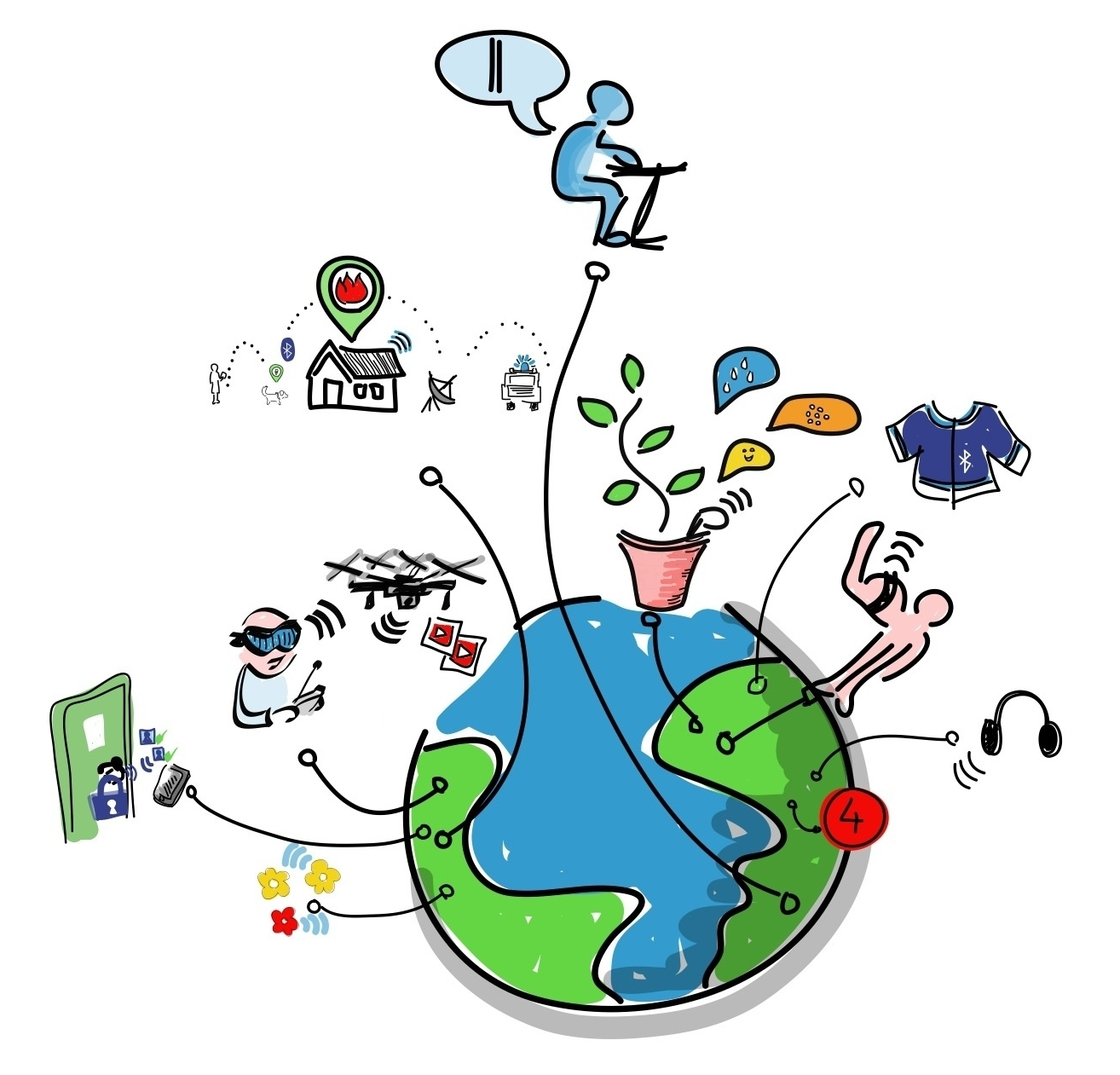 Drawing that represents the Internet of Things. Includes connected objects, a drone with a 3km range, a connected plant. "Connect the world!"